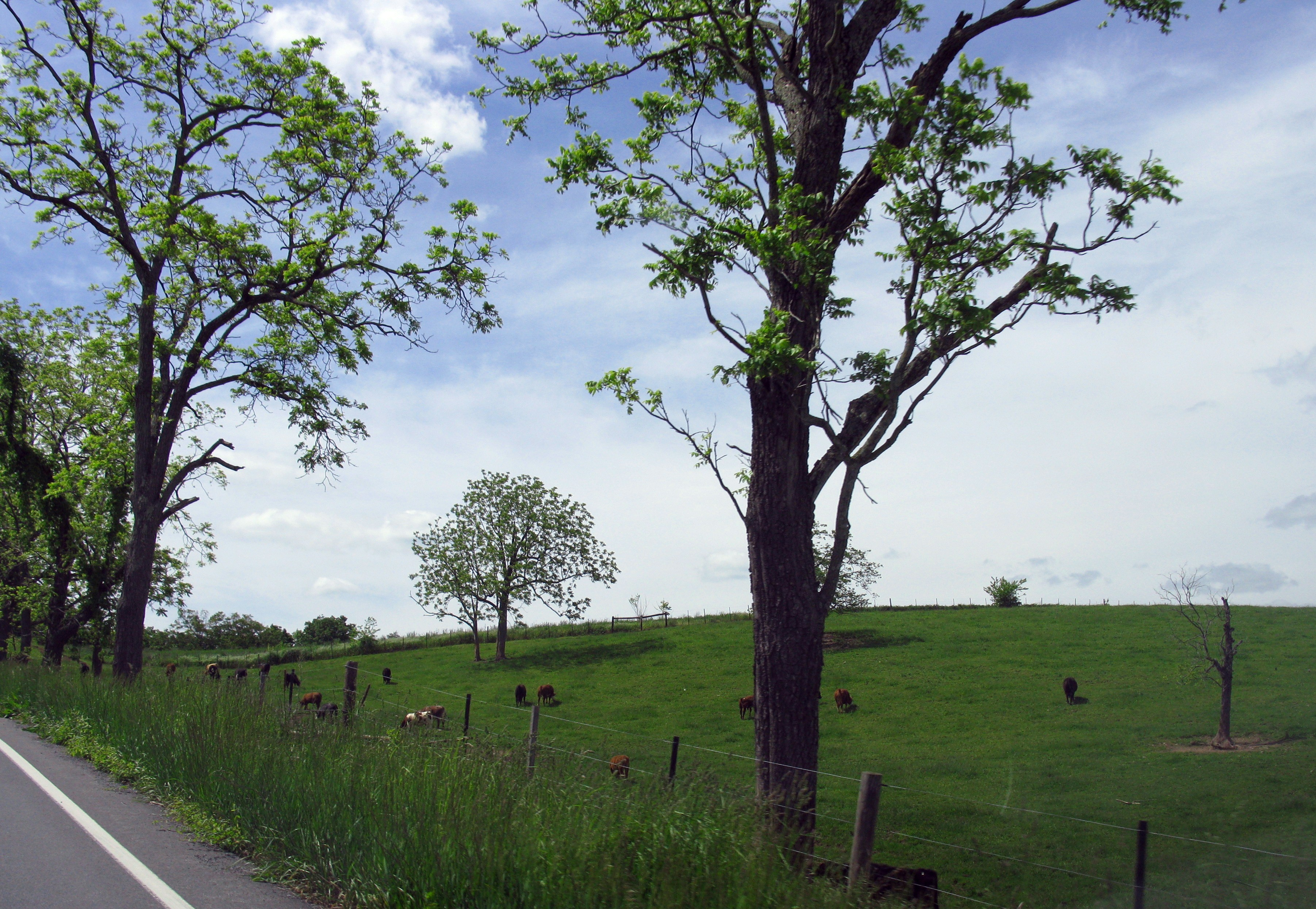 View from SR 643 near U.S. Route 522, Bethel Township, Pennsylvania